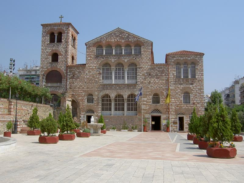 The Church of Saint Demetrius(Hagios Dimitrios) in Thessaloniki, Greece. Photo taken in 2007.